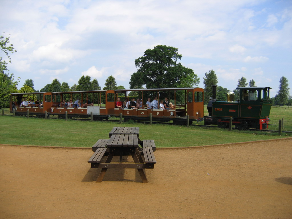 The small train at Cotswold Wildlife Park, Burford, Oxfordshire, England.